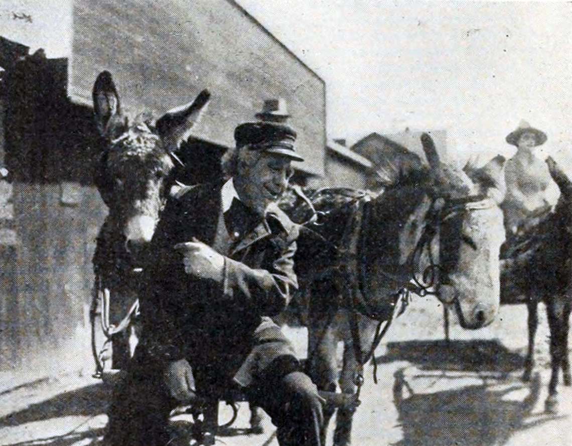 Illustration of a review in The Moving Picture World